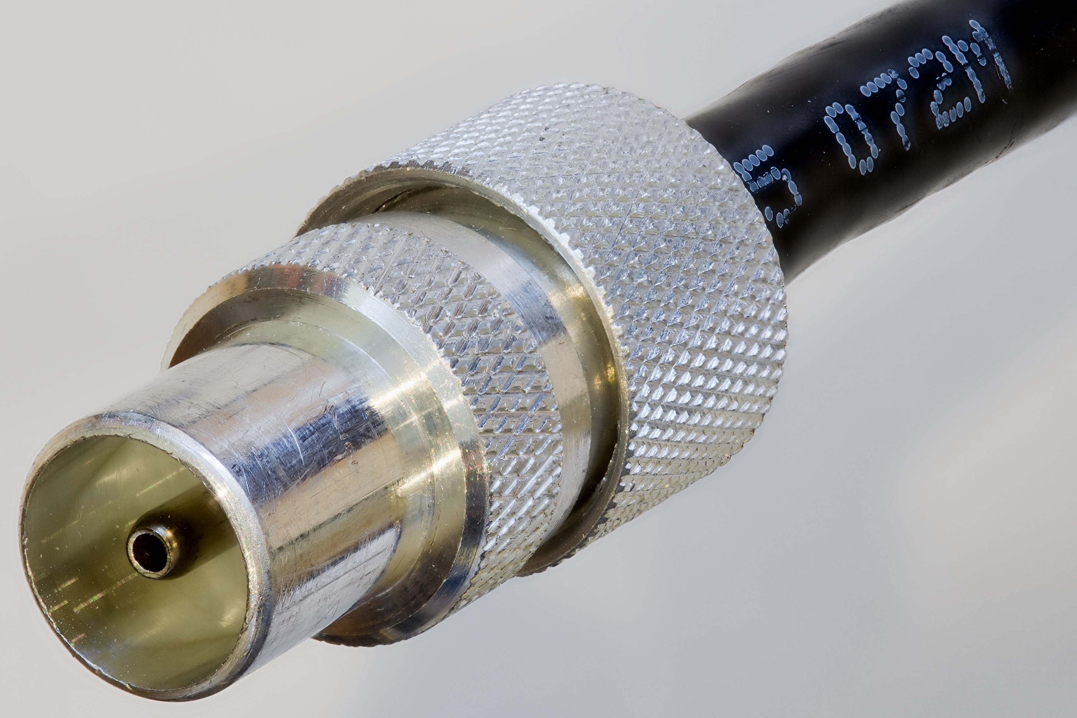 An IEC 169-2 connector. Also known as a Belling–Lee connector or TV aerial plug. This is the kind used by professional fitters that can be assembled to the end of a 75ohm aerial cable cut to length. It is made of soft lightweight aluminium.